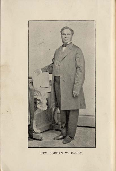 Reverend Jordan Early.